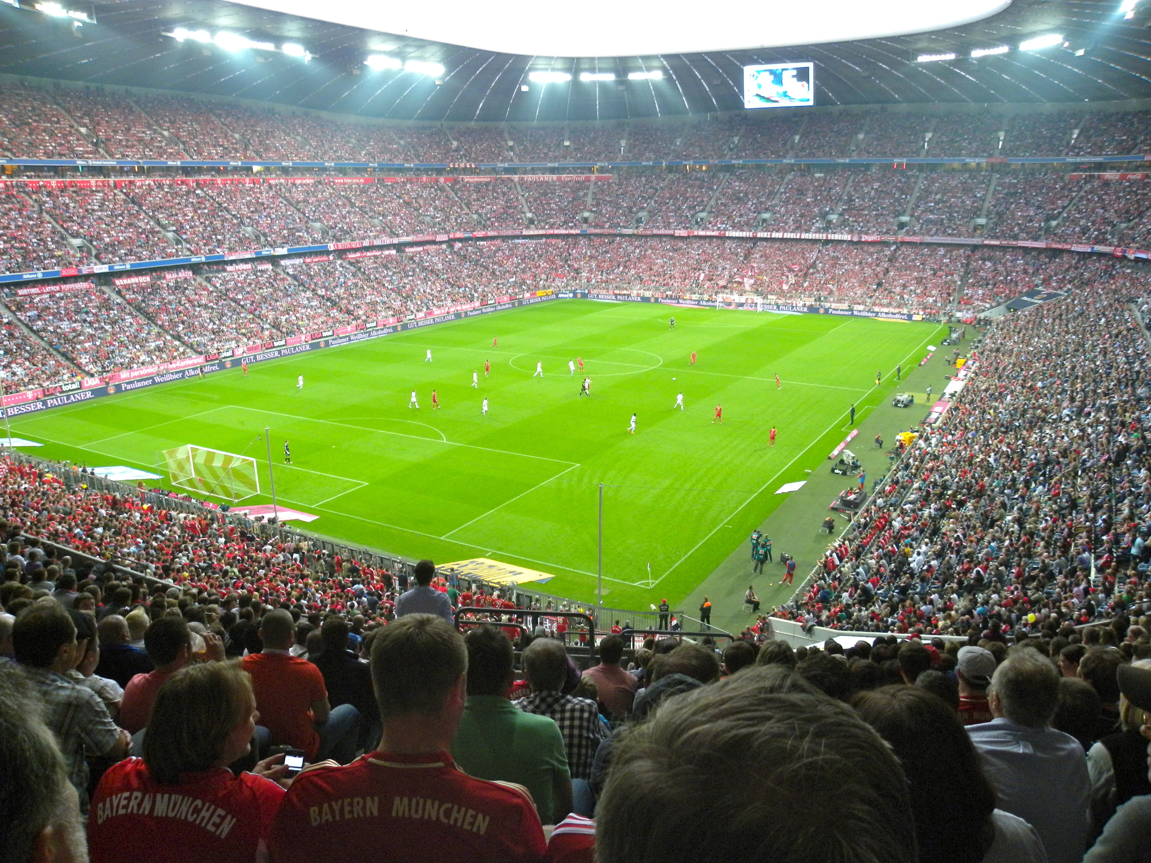 Bayern Munich against Bayer Leverkusen at the Allianz Arena in the Bundesliga on 24 September 2011.